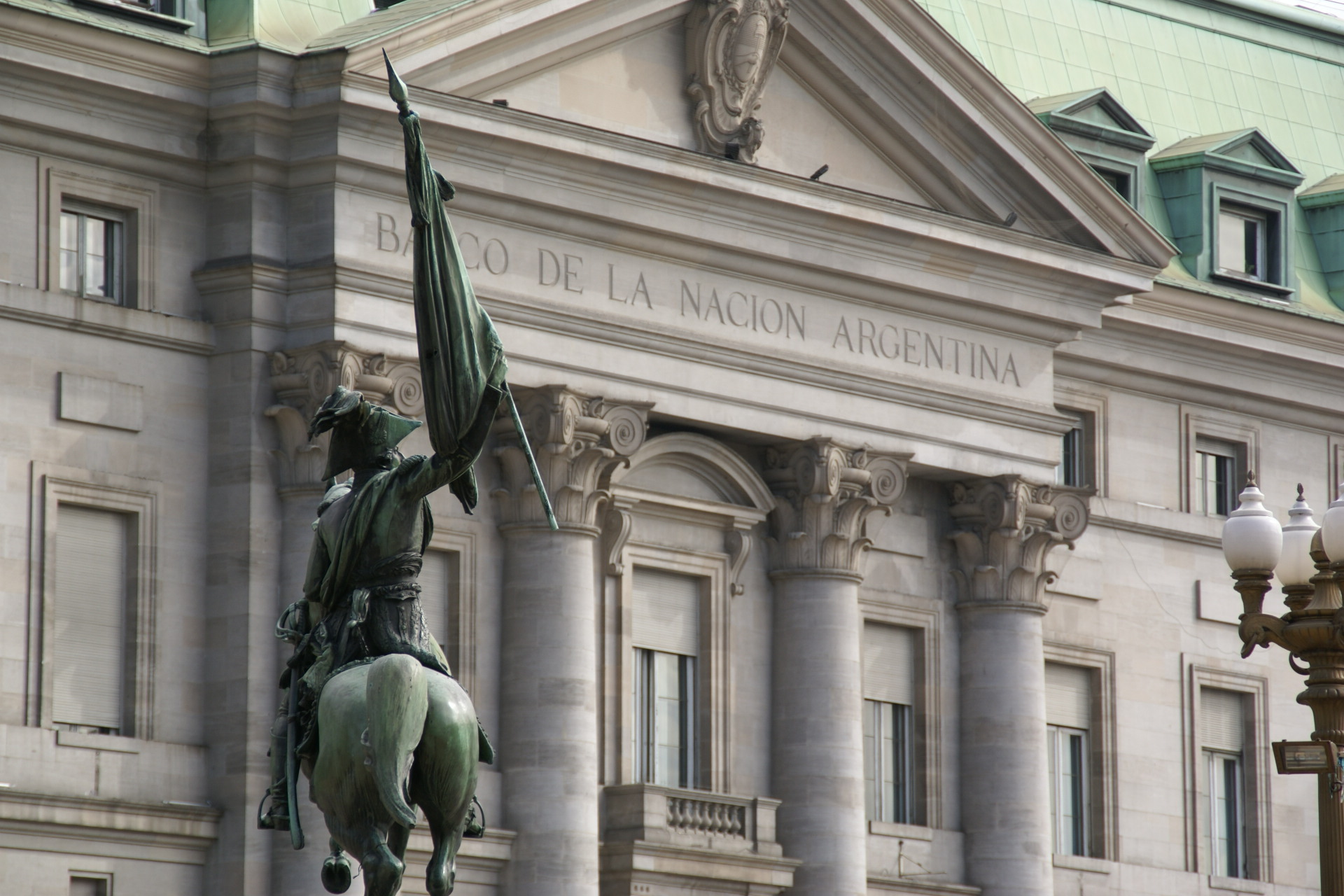 Banco de la Nación Argentina and equestrain monument to Manuel Belgrano at Plaza de Mayo in Buenos Aires, Argentina